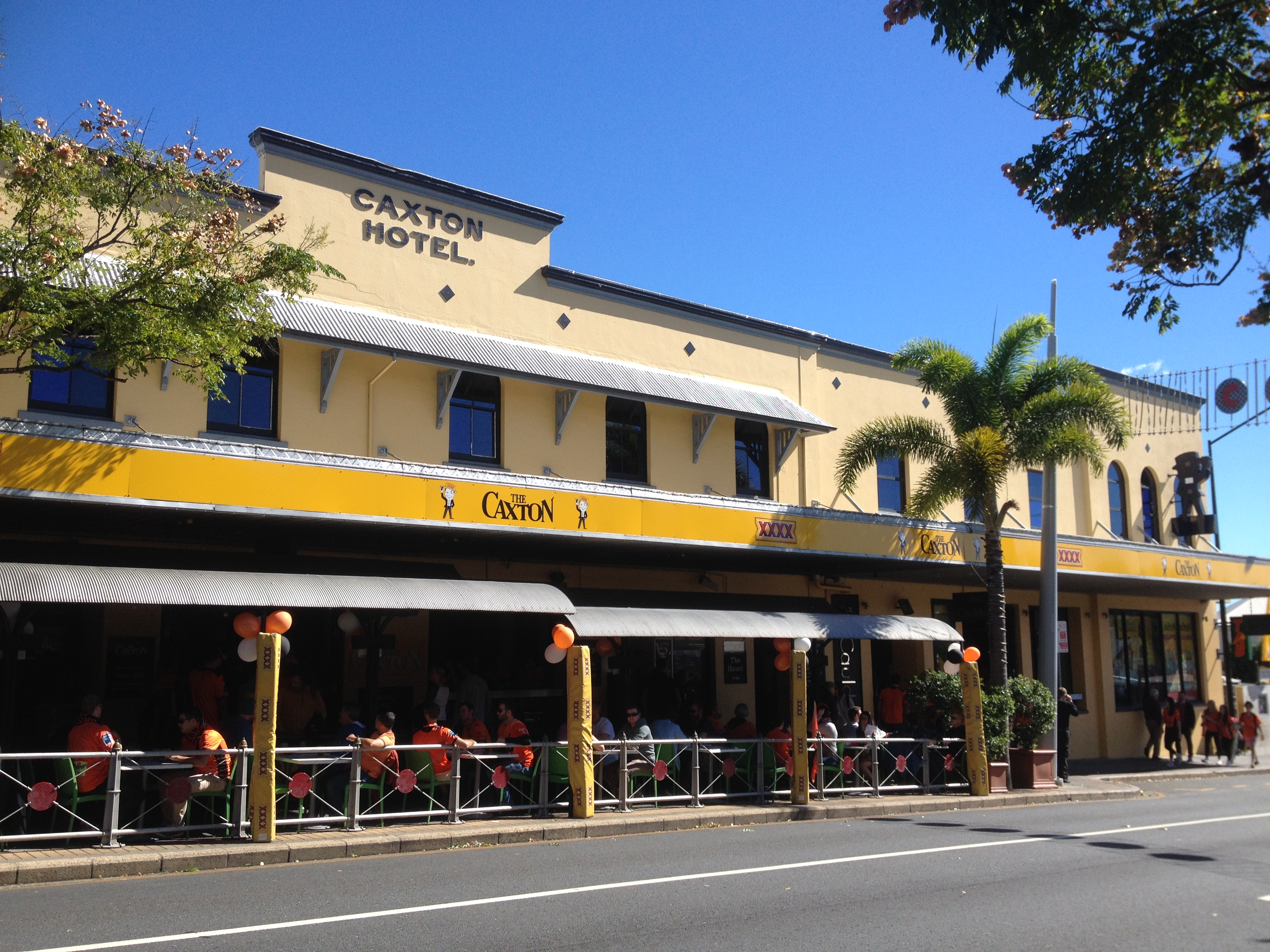 The Caxton Hotel at Caxton Street, Brisbane